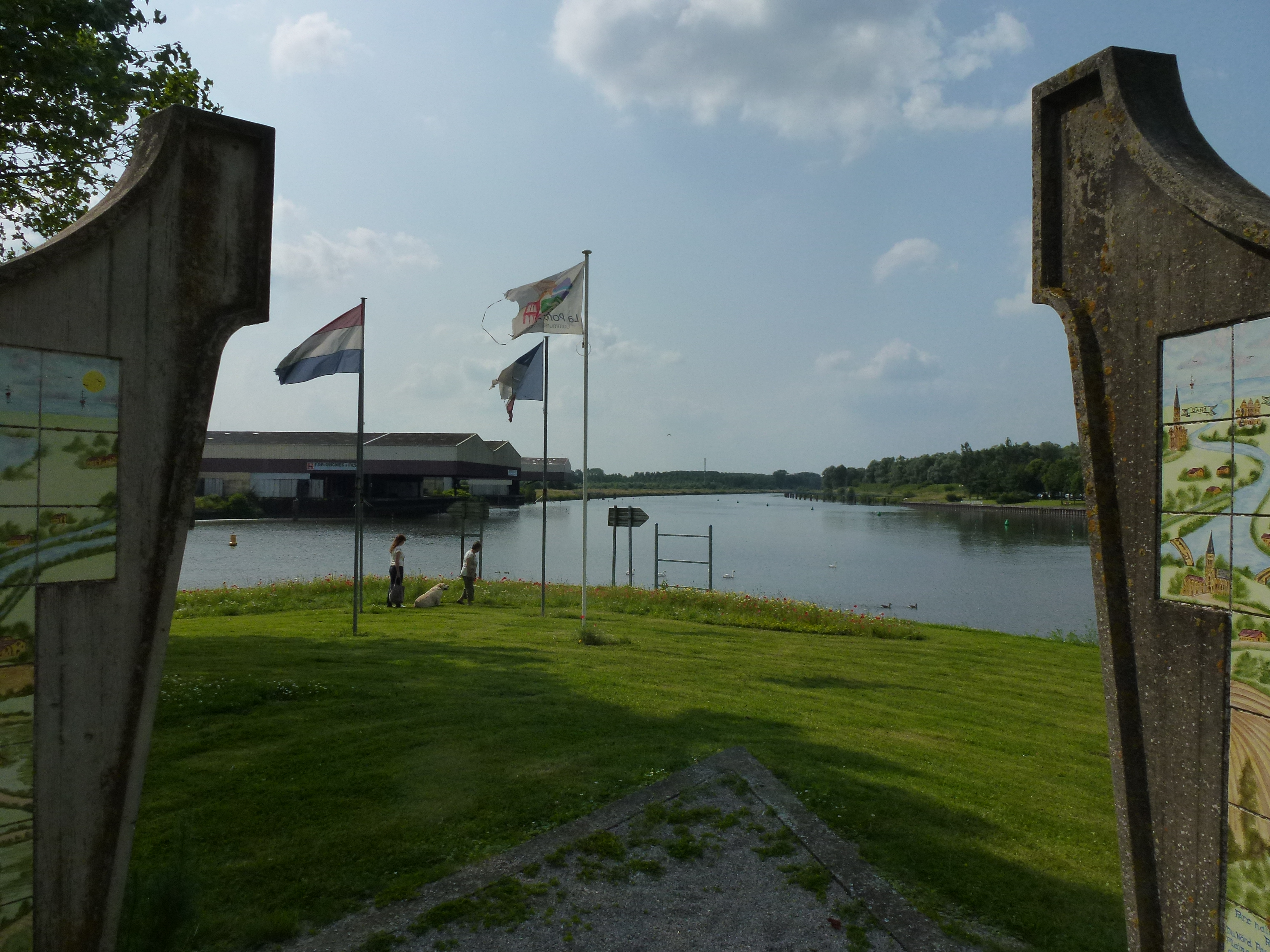 Mortagne-du-Nord (Nord, Fr) confluence Scarpe-Escaut